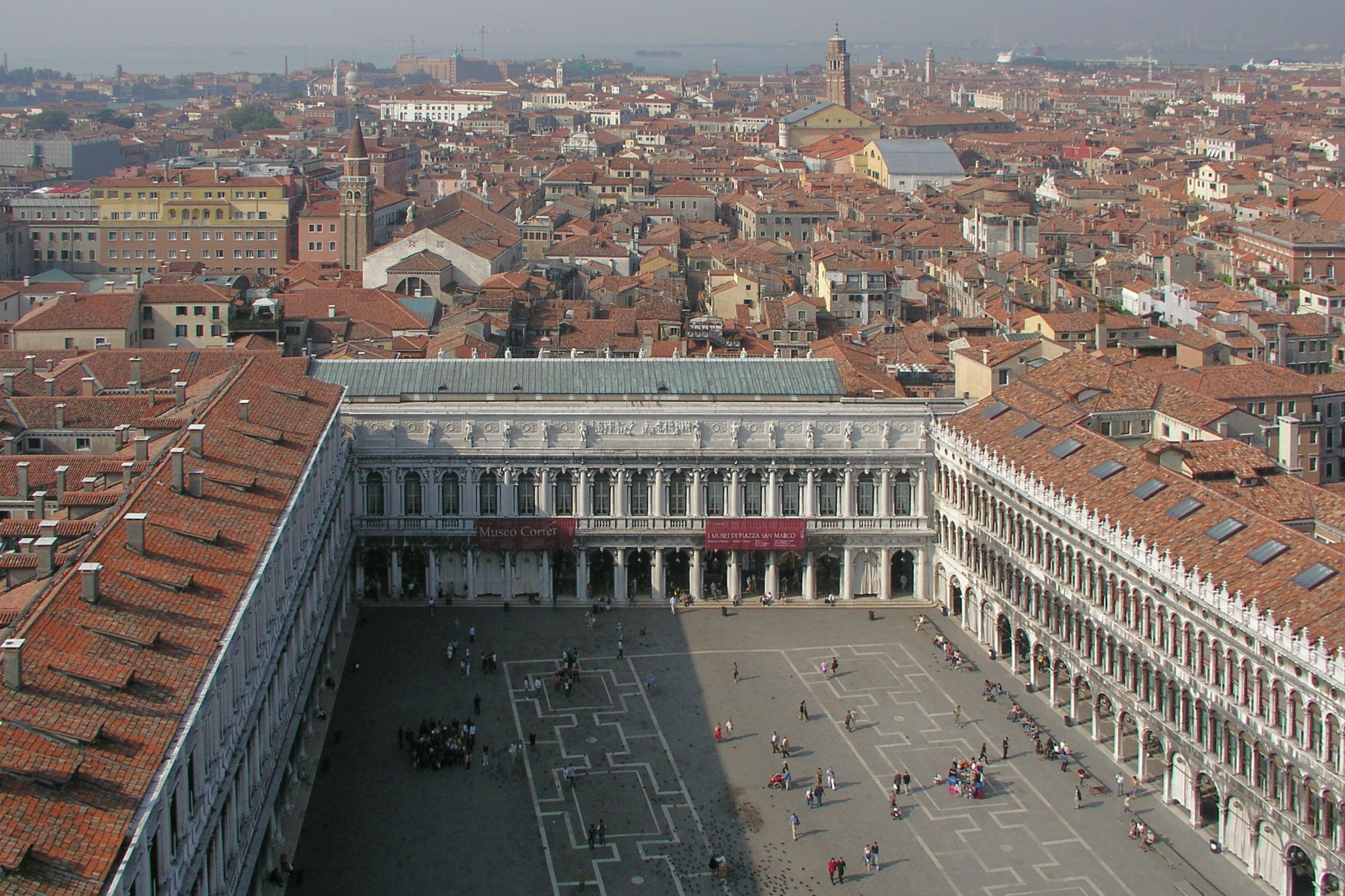 View from Campanila San Marco - west, Venice, Italy